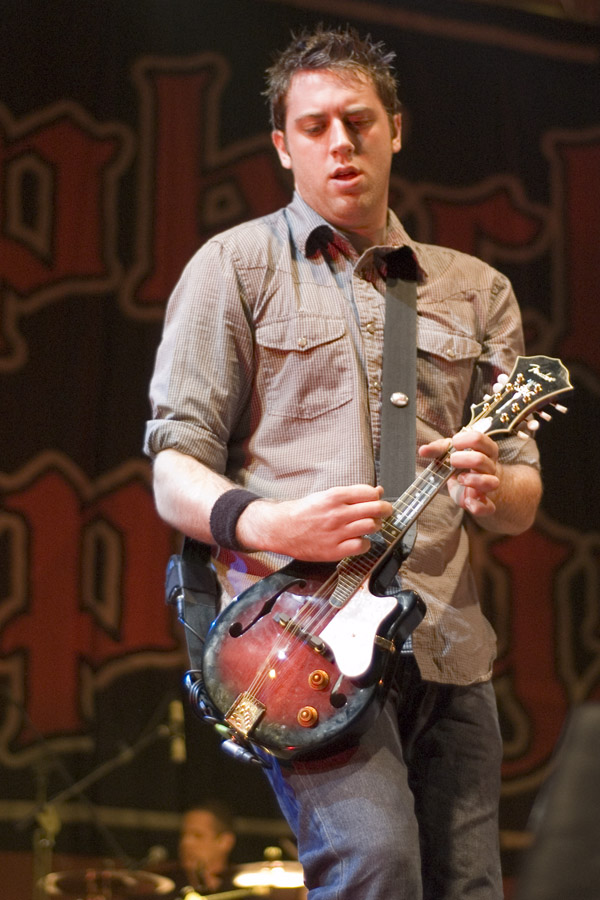 Dropkick Murphys @ Sordevolo (BI) 28/06/07